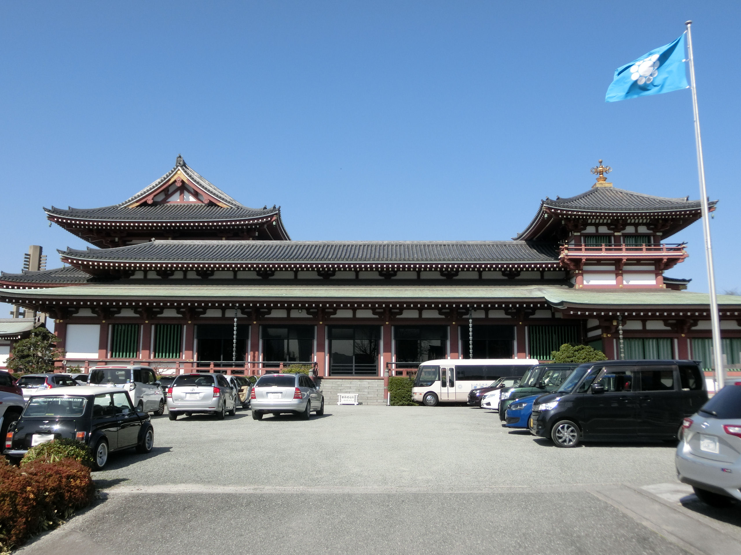 Kodo-kyodan Headquarters